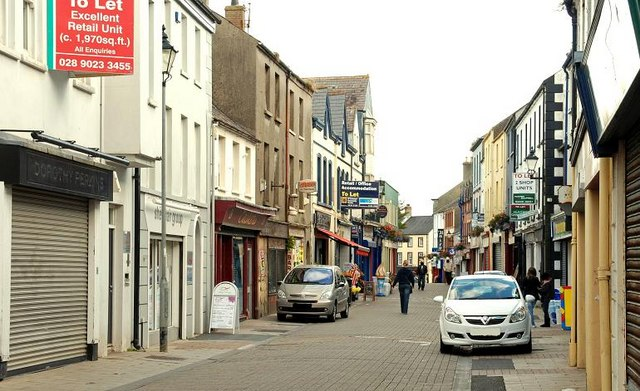 West Street, Carrickfergus (2). See 650257. 20 months later - for the record.